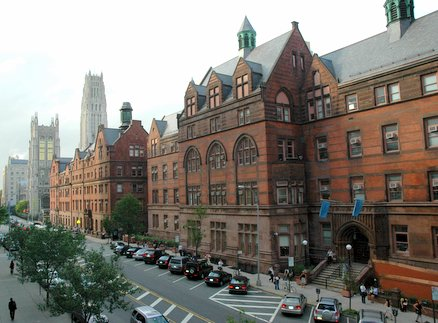 Looking northwest across 120th St at Teacher's College 2004 2004 Christopher Matta, free to use for any purpose.